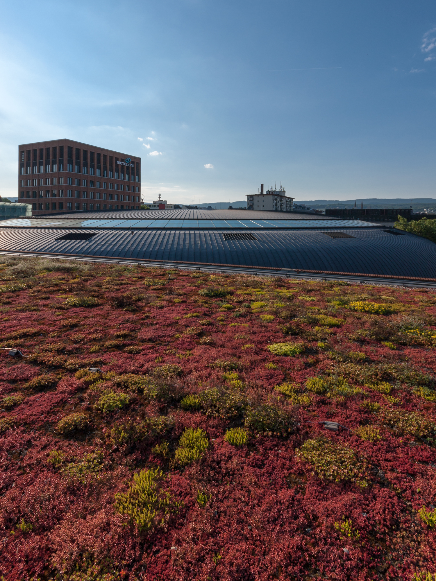 green roof on top of a parking garage in Wiesbaden 2013